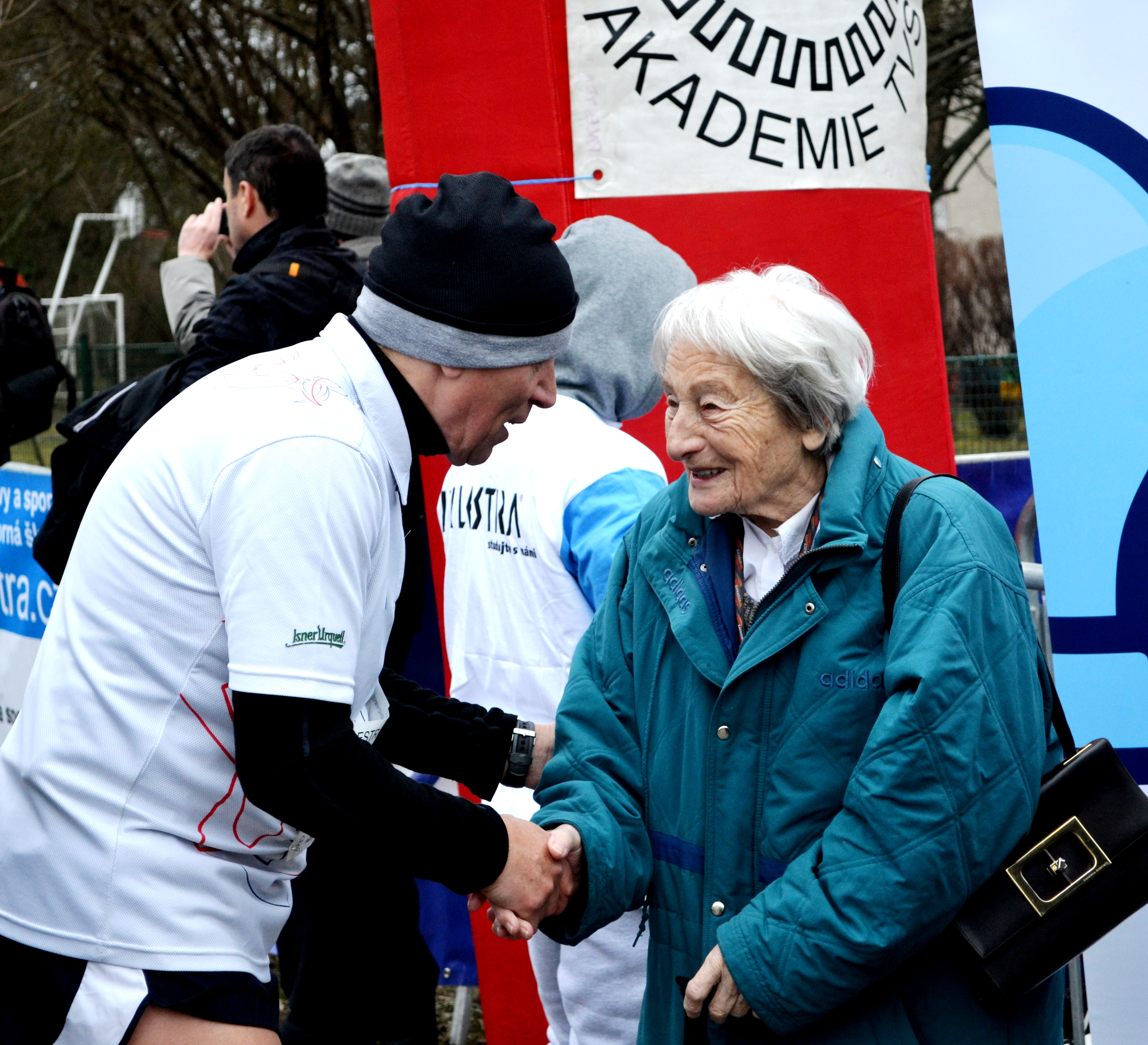 Dana Zátopková, former javelin thrower, Olympic winner (Helsinki 1952)